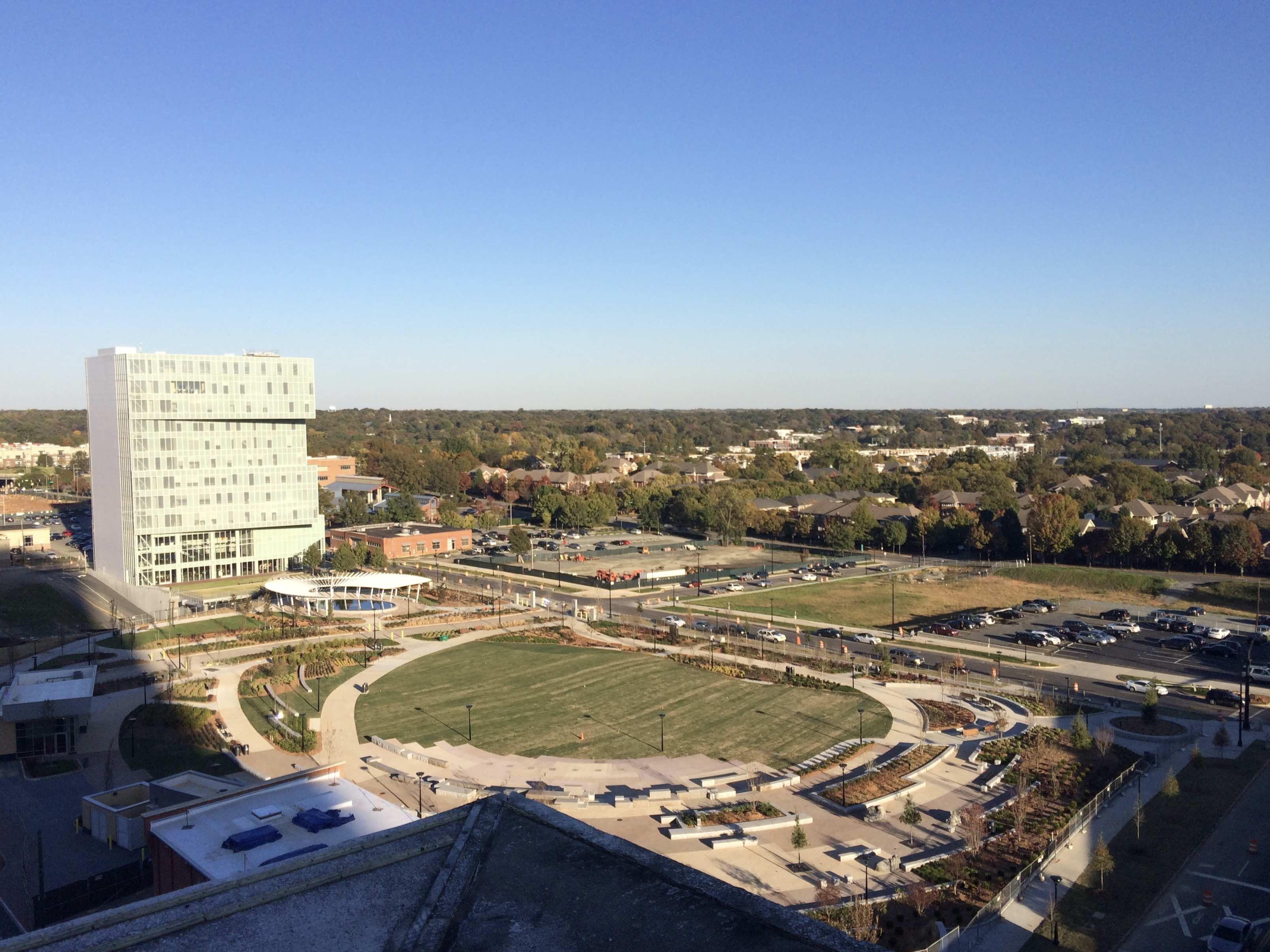 View of First Ward Park from above on 2015-10-30.